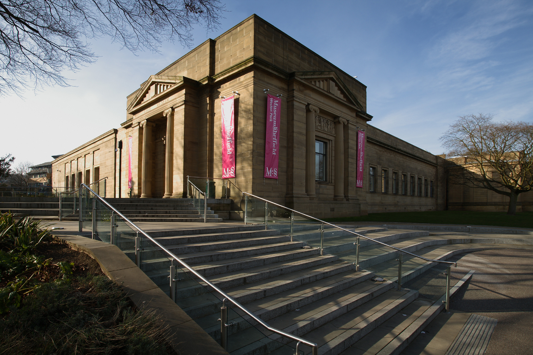 Main entrance to Weston Park Museum, on Western Bank, Sheffield